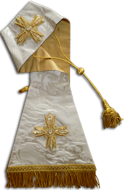 Maniple